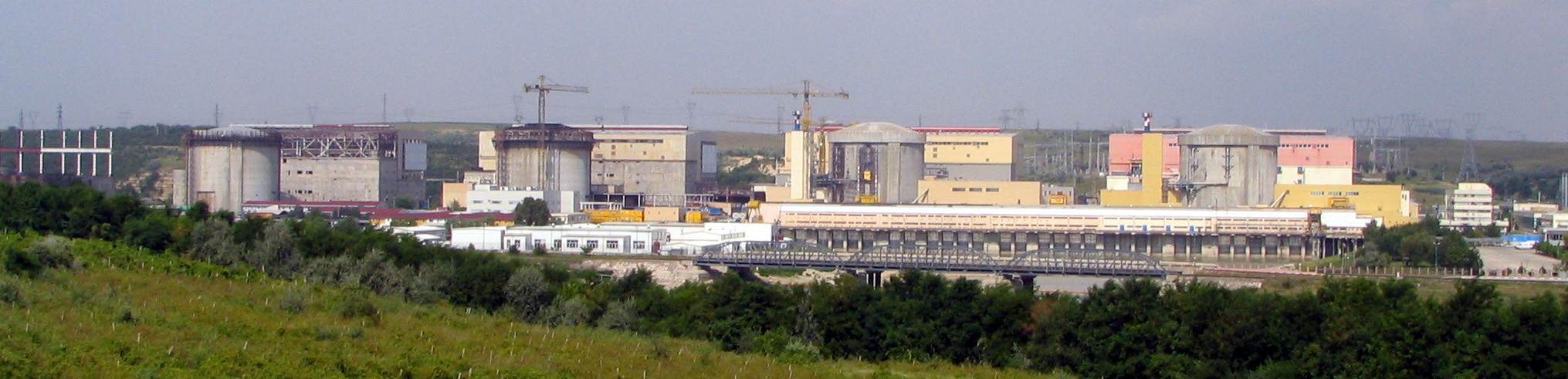 The Cernavodă nuclear power plant units in various degrees of completion.